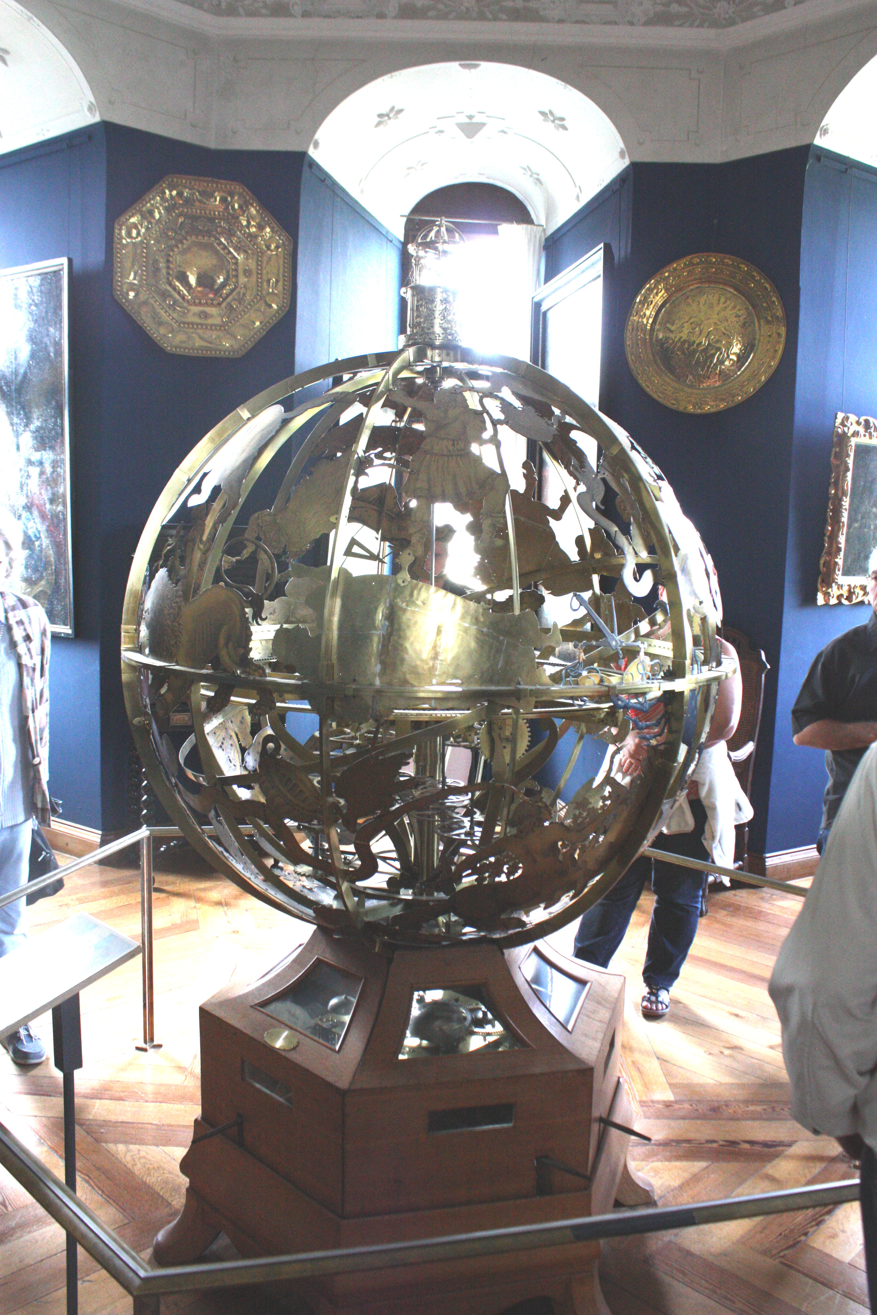 The celestial globe from Gottorp Castle in Schleswig, executed in 1654-57 for Duke Friedrich III of Gottorp by Andreas Bösch of Limburg with the assistance of Adam Olearius, Court Mathematician, Antiquarian, an Geographer. The planets move round the sun according to the Copernican system. The verry small globe above moves according to the Ptolemean system.